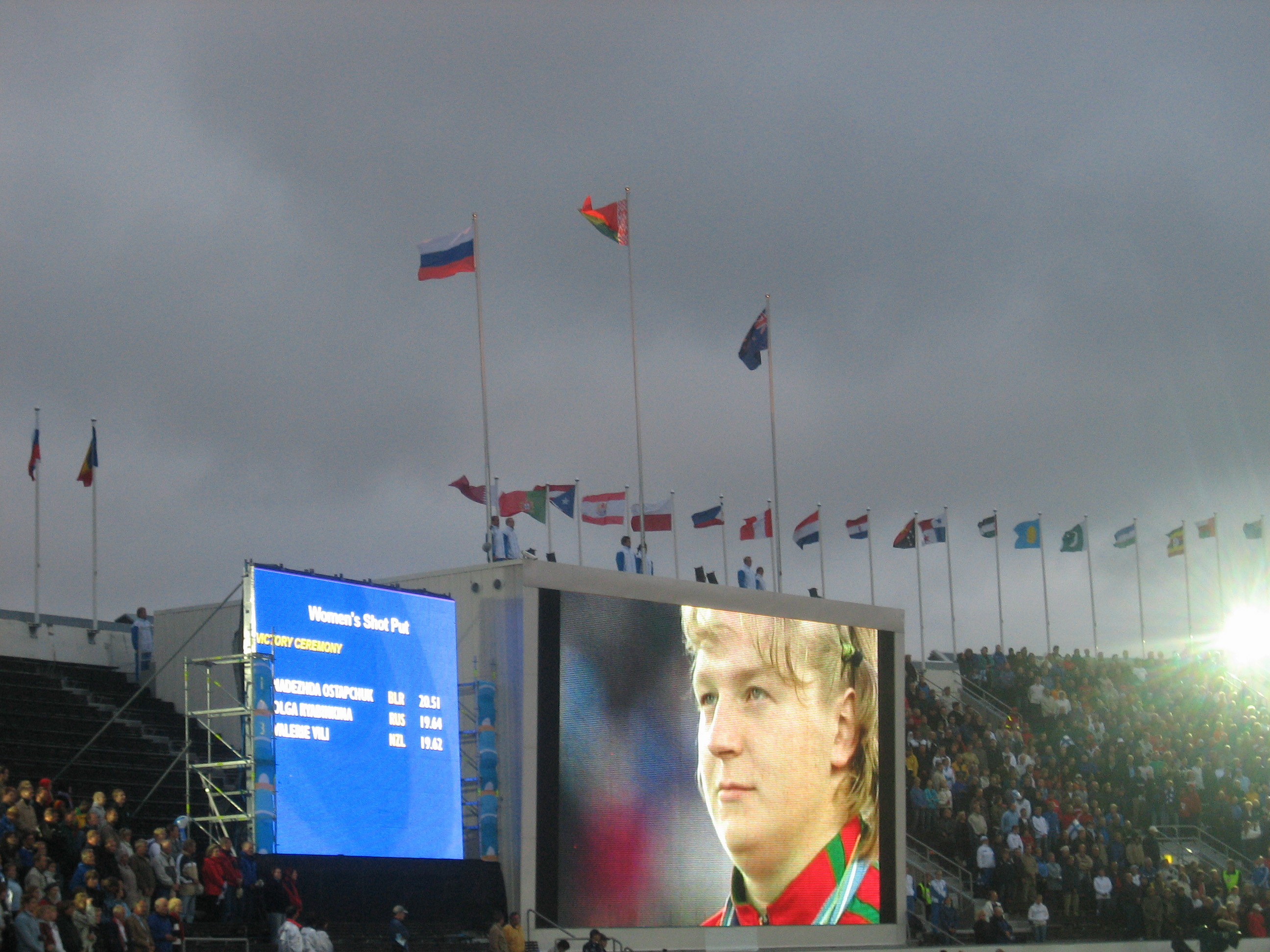 Nadezhda Ostapchuk of Belarus during the medal ceremony of women's shot put.